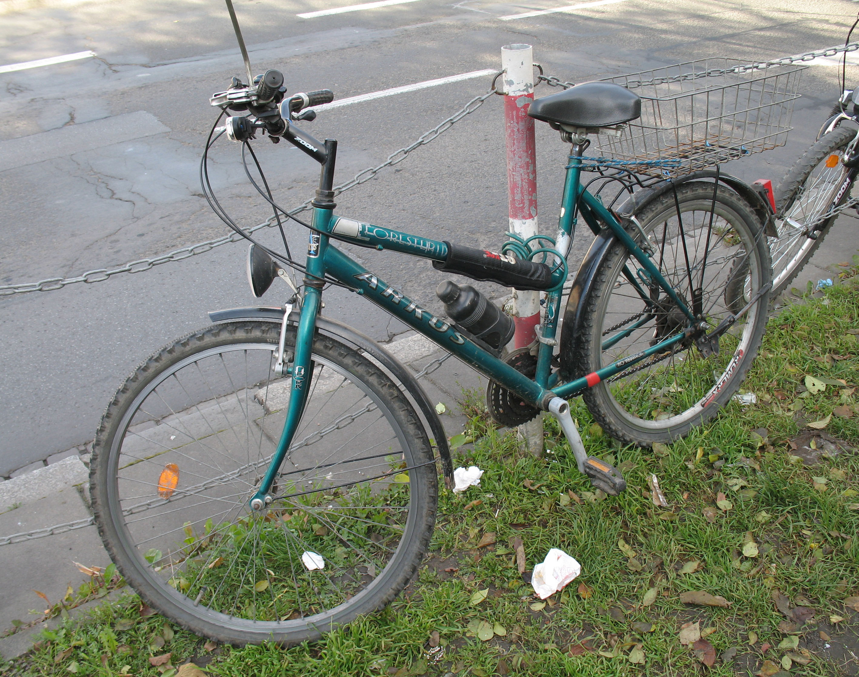 Arkus Forester bicycle in Kraków, Poland.